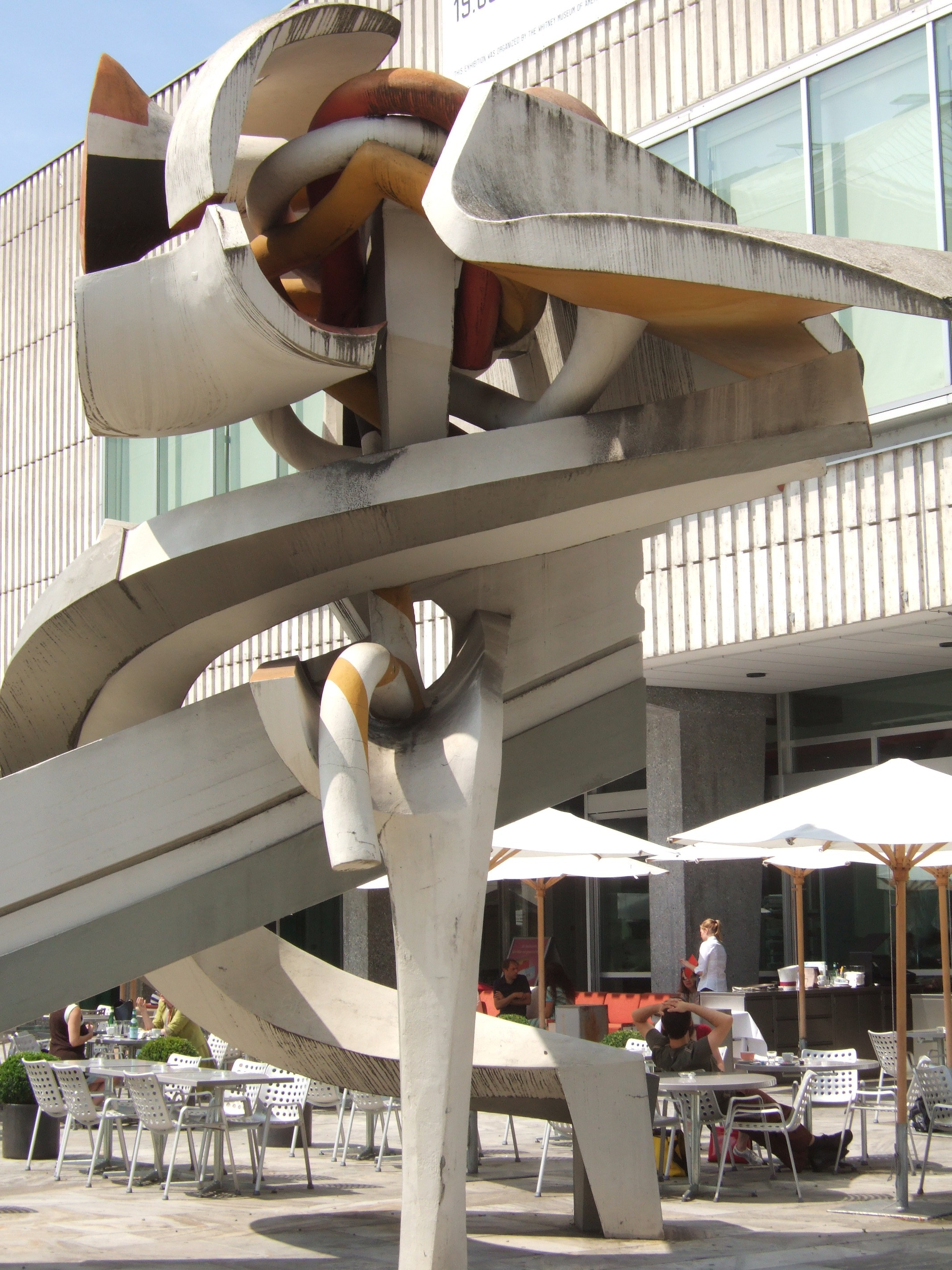 Sculpture "Fanfare" by Swiss Artist Robert Müller in front of Kunsthaus Zürich